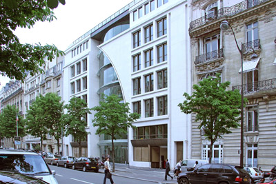 “NF Bâtiments tertiaires – Démarché HQE (Haute Qualité Environmentale)” certification for high environmental quality in office buildings.